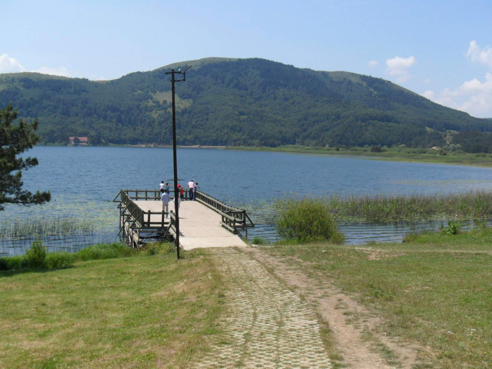 Lake Abant